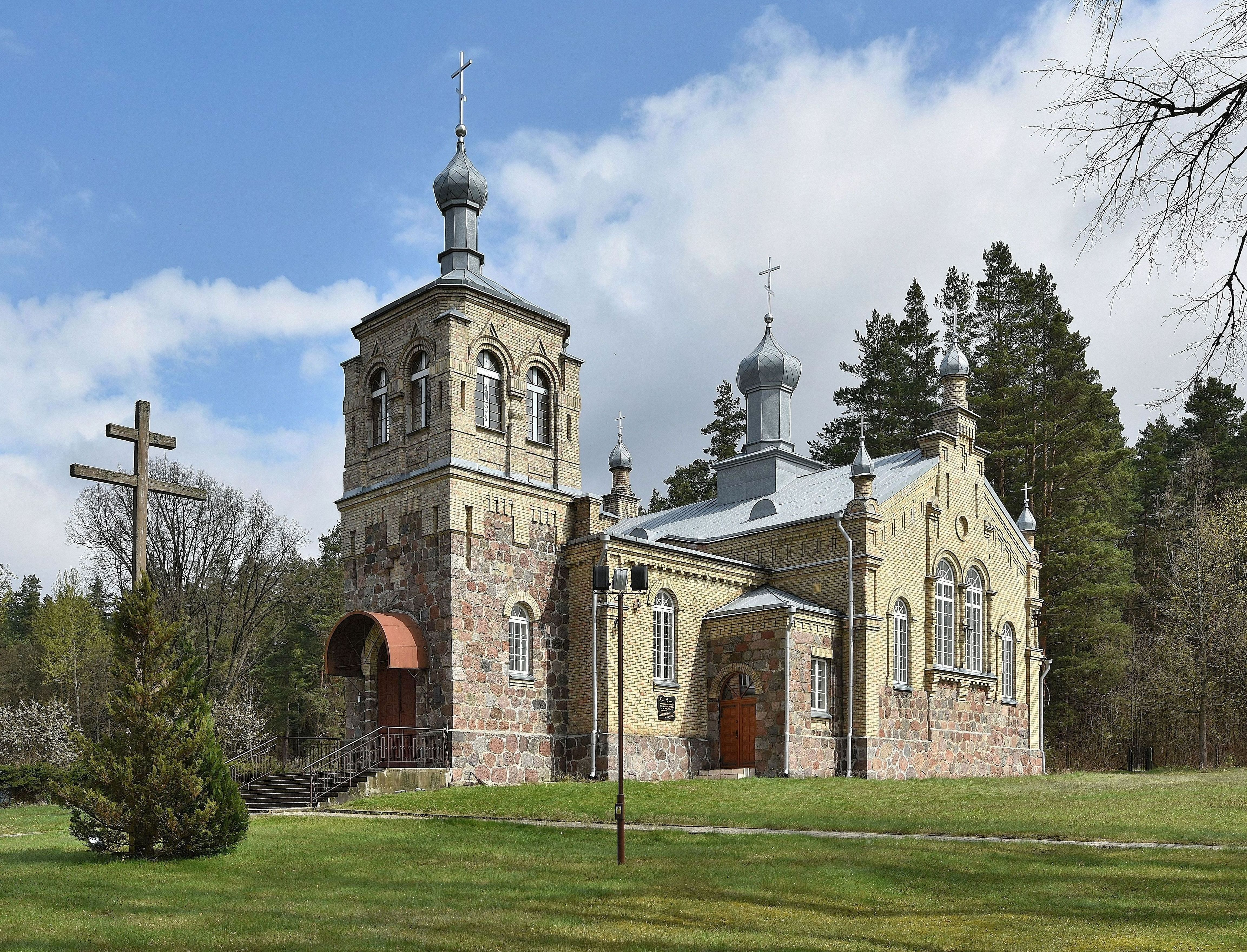 Orthodox church of St. Anne in Królowy Most